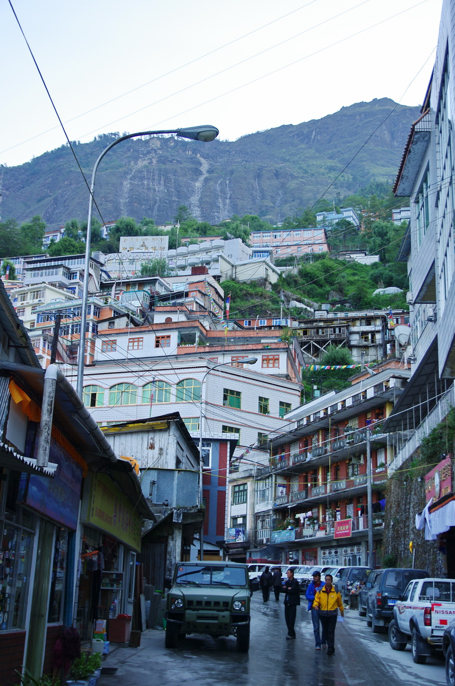 Main street, Zhangmu